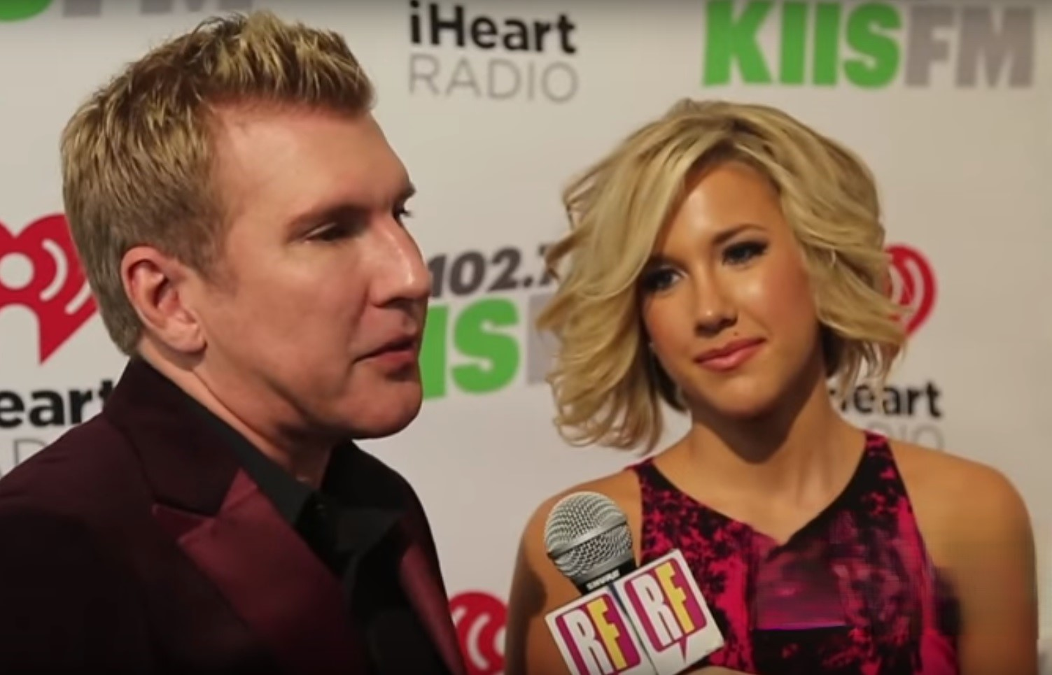 Todd Chrisley and daughter Savannah Chrisley of the reality TV series Chrisley Knows Best interviewed by RumorFix at KIIS-FM's Jingle Ball 2014.